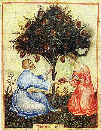 Pine Cones (Pinee) Nature: Warm in the second degree, dry in the first. Usefulness: They stimulate the bladder, the kidneys, and the libido. Dangers: Worms hatch in their bark. Neutralization of the Dangers: Trim the tree often. From the Tacuinum of Paris